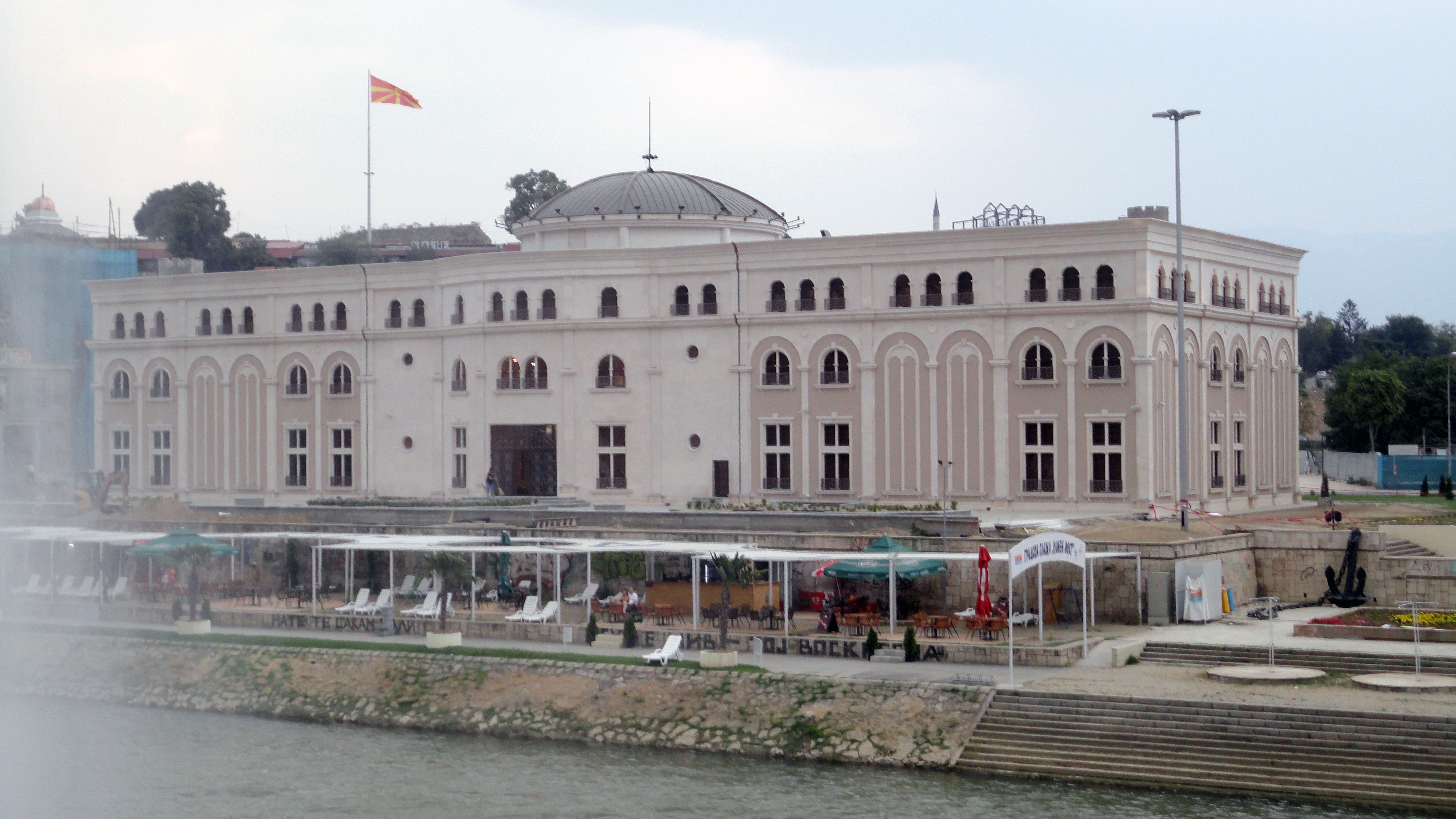 Museum of the Macedonian Struggle